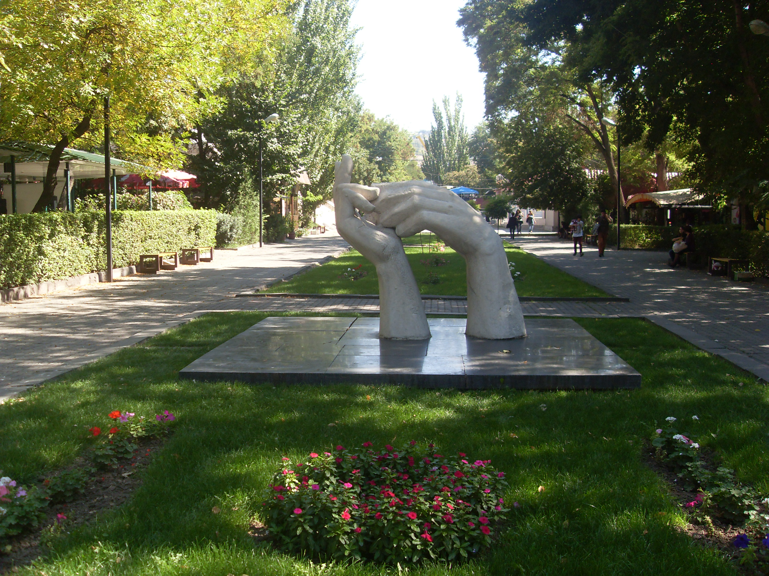 Hands of Amity, 1967 6/114